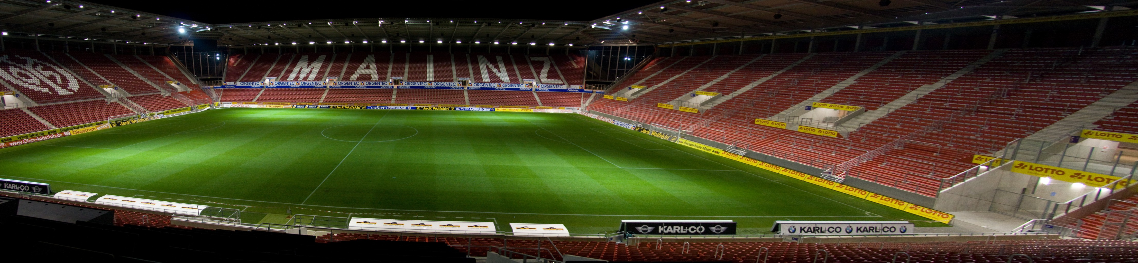 Inner view of Coface Standion